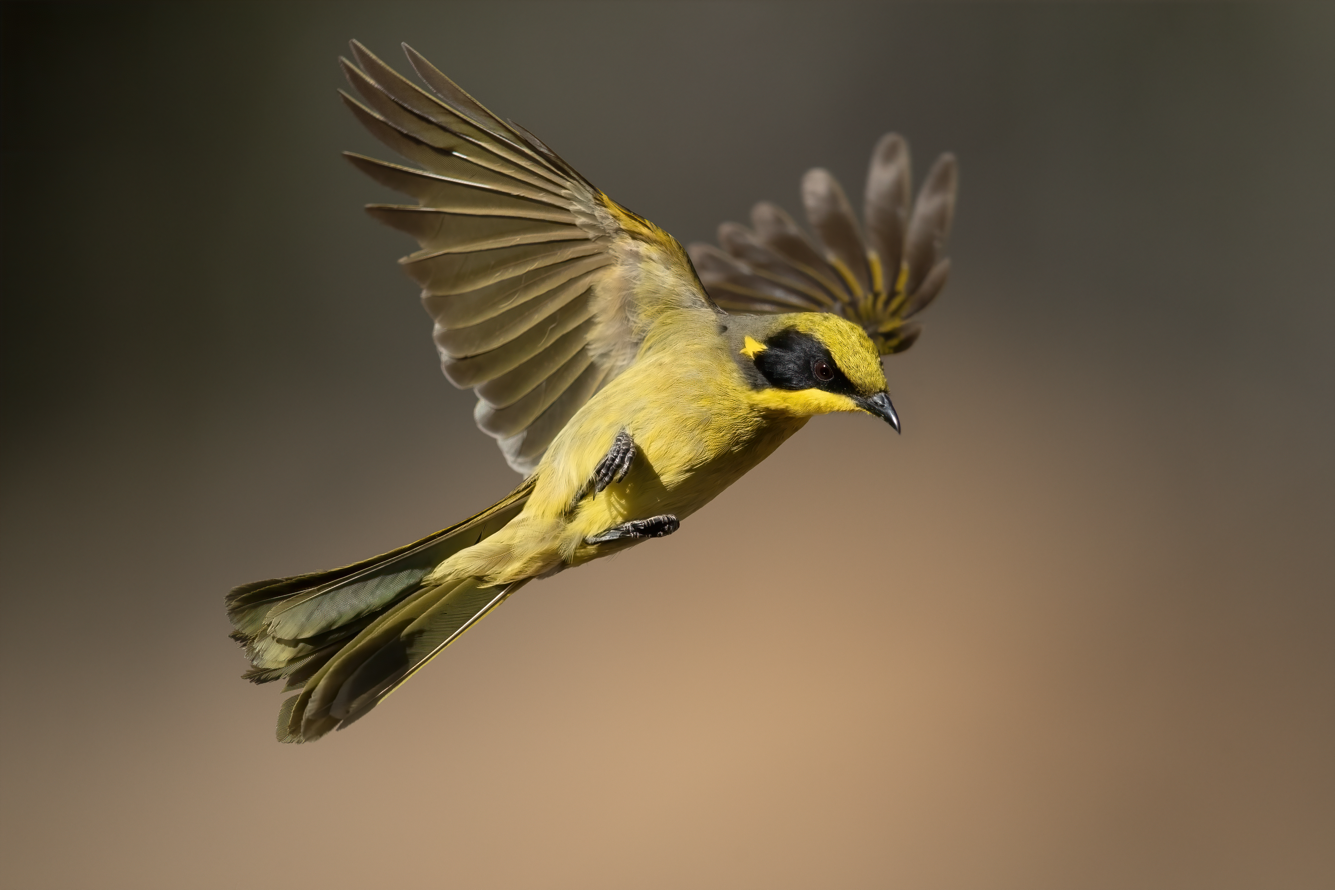 Yellow-tufted Honeyeater (Lichenostomus melanops), Glen Alice, Lithgow, New South Wales, Australia